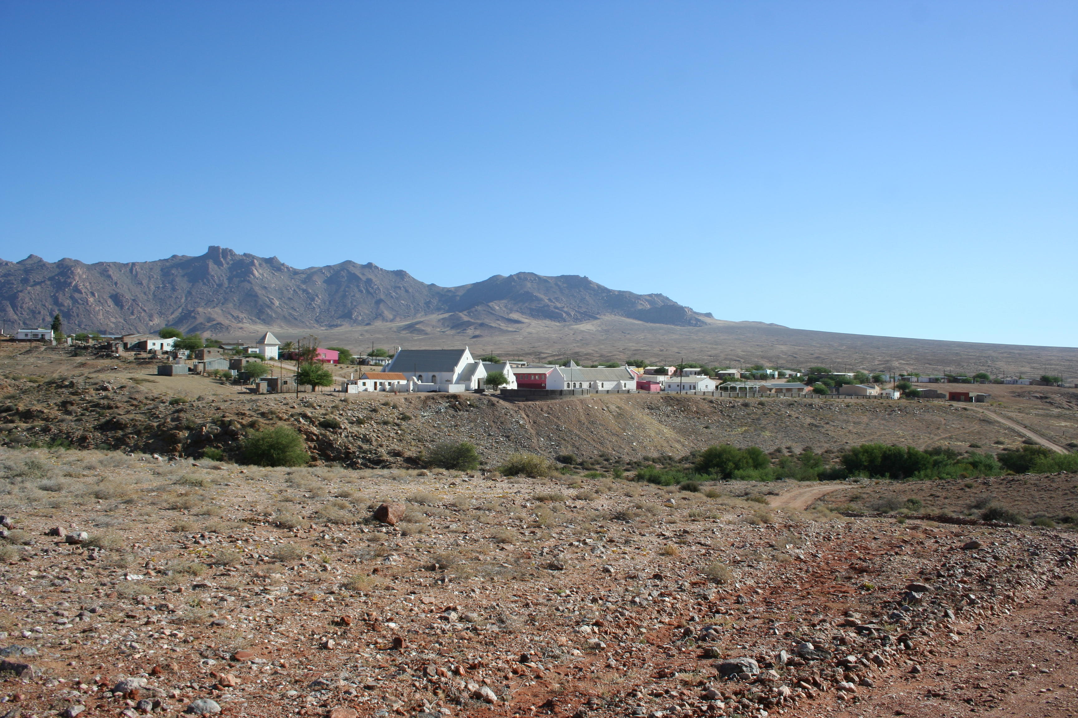 The old mission church in Kubos, Namaqualand at noon. This media shows a South African Protected Site with SAHRA file reference [1].